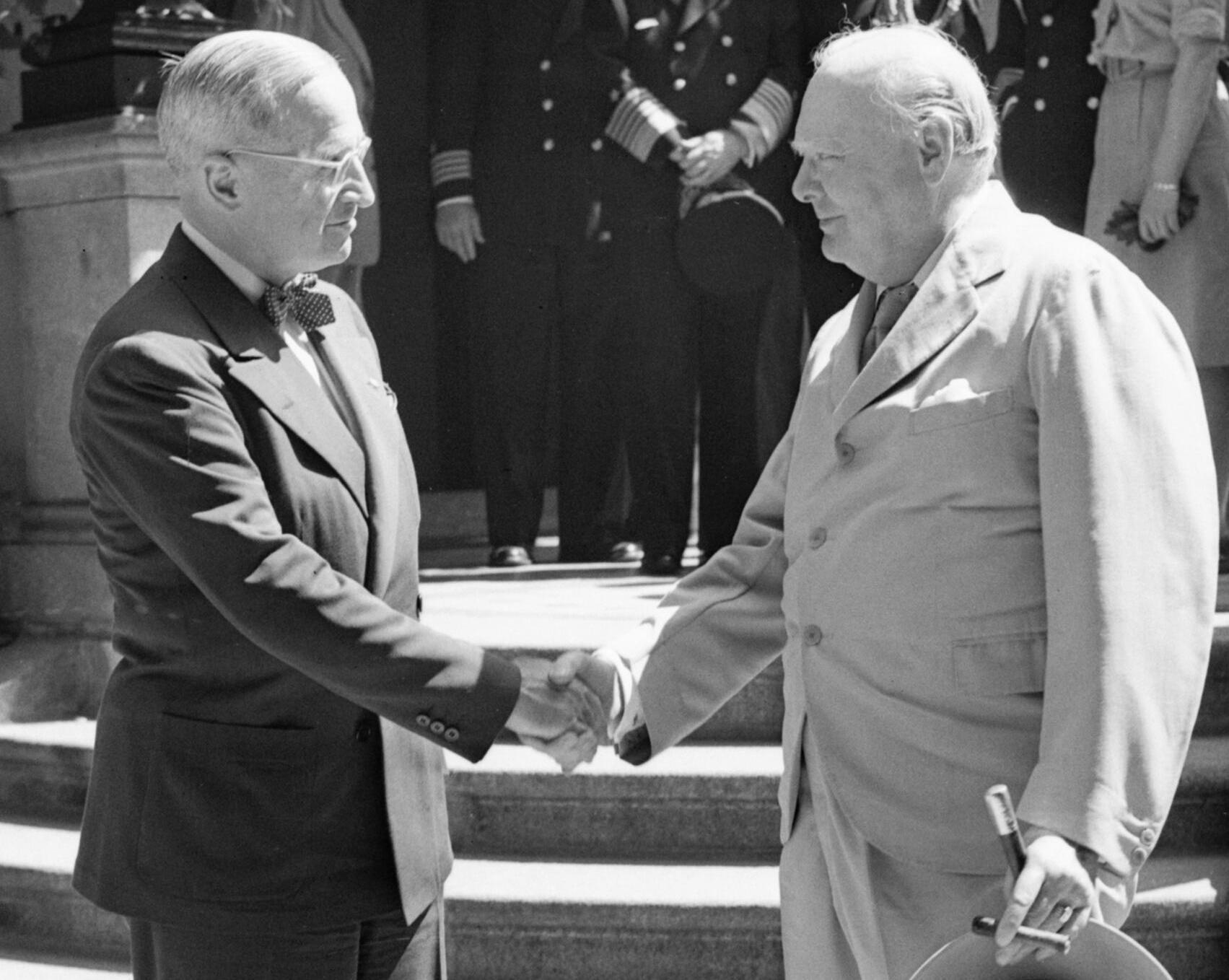 President Harry Truman and Winston Churchill shake hands on the steps of Truman's residence during the Potsdam conference, 16 July 1945. Prime Minister Winston Churchill and US President Harry Truman shake hands on the steps of Truman's residence, "The White House", at Kaiser Strasse, Babelsberg, Germany, on 16 July 1945.